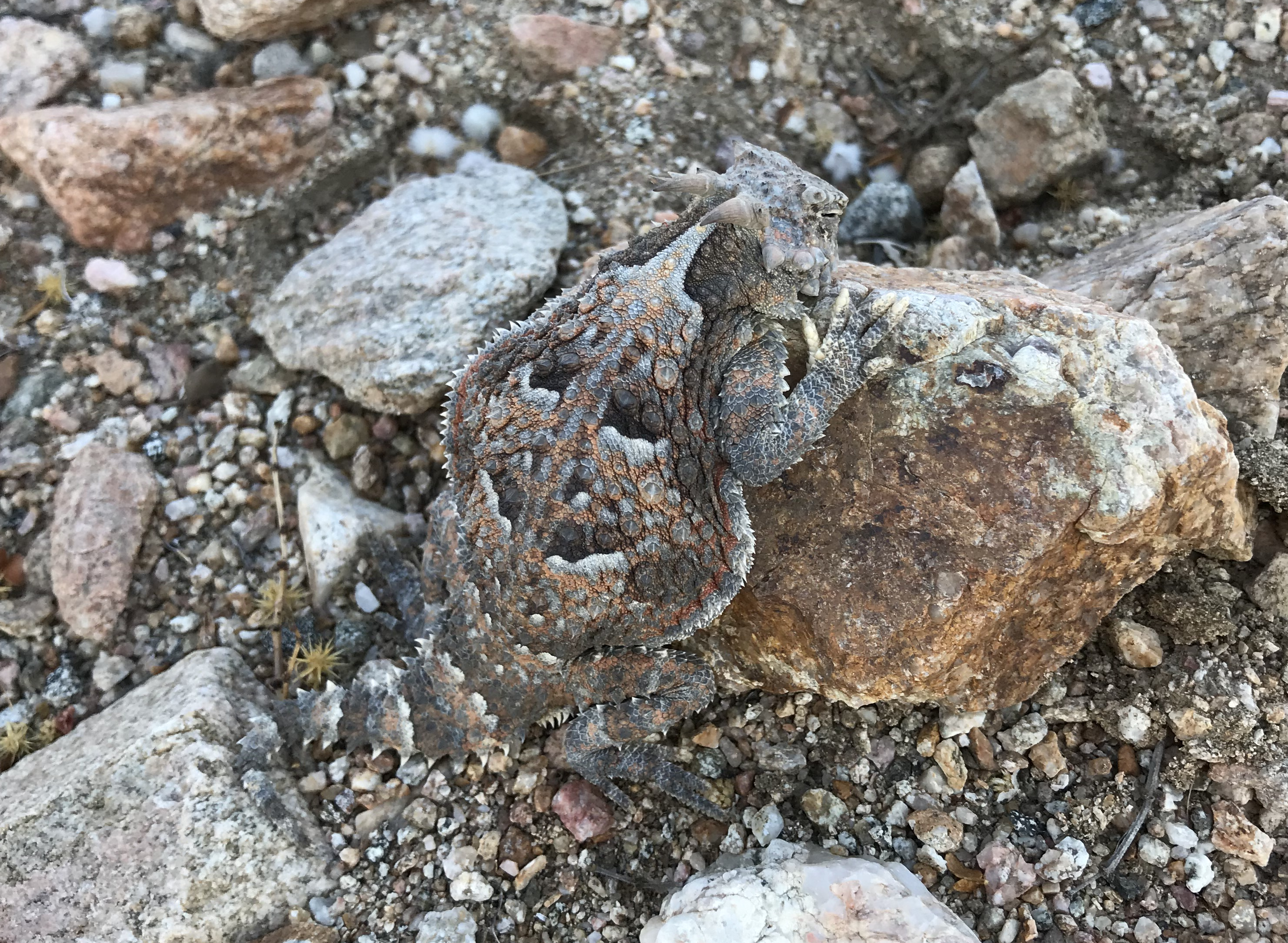 Desert Horned Lizard in Mojave Desert, San Bernardino County CA